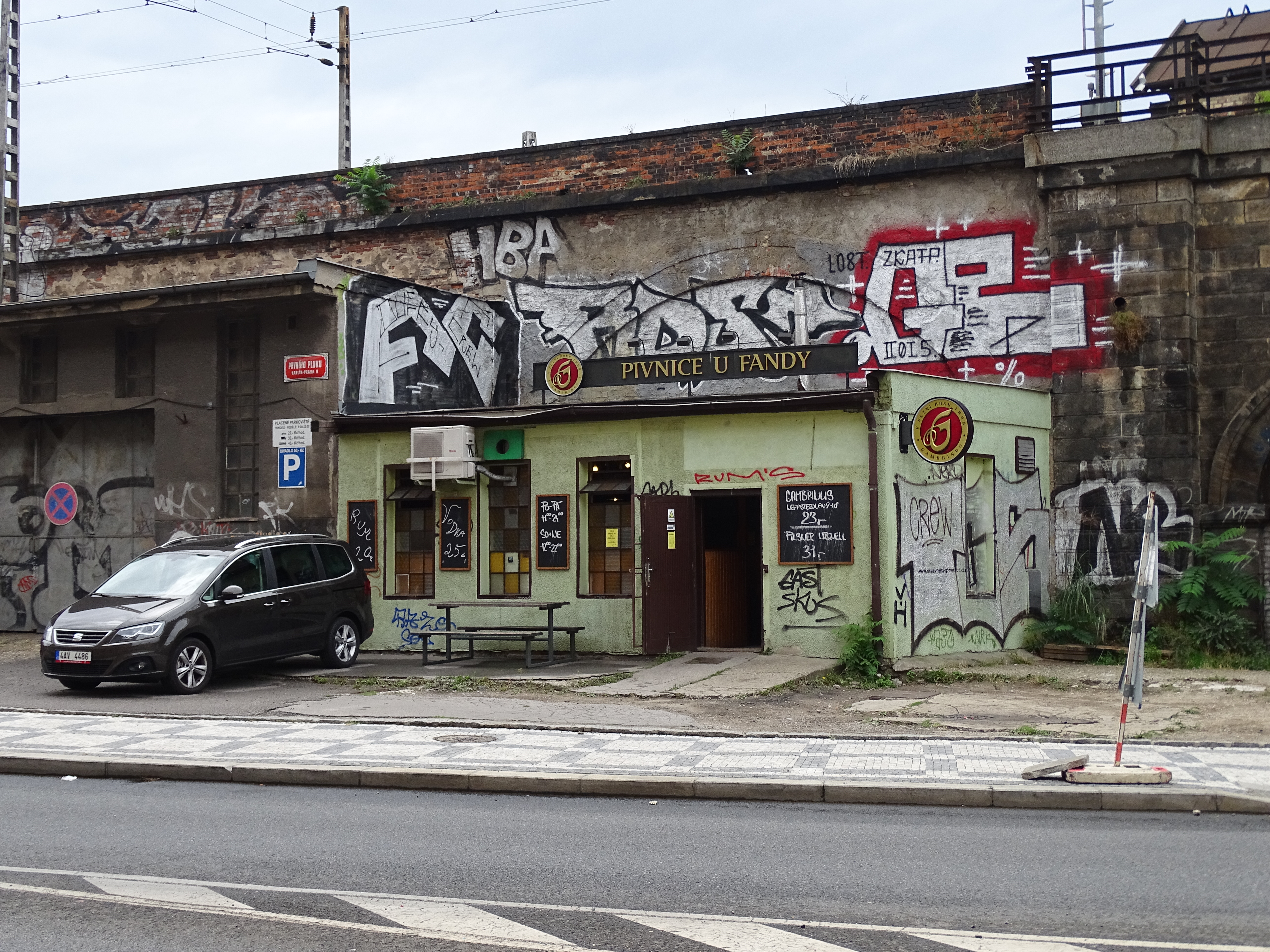 Prague-Karlín, Czech Republic. Prvního pluku, a railway viaduct.